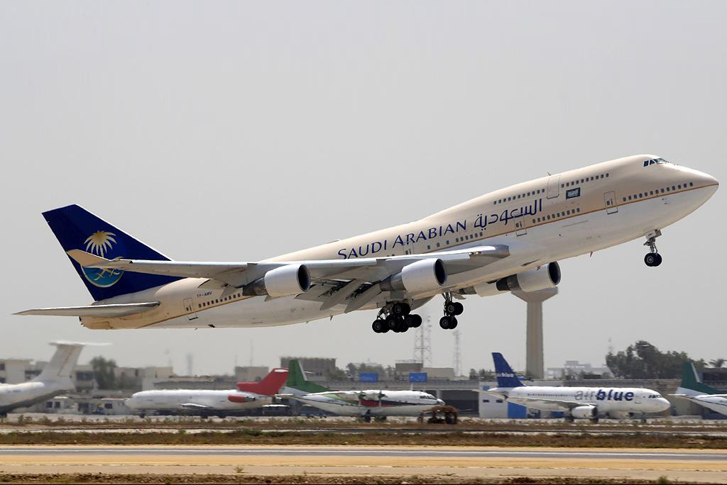 Saudi Arabian Airlines Boeing 747-468 at Jinnah International Airport, in Karachi, Pakistan